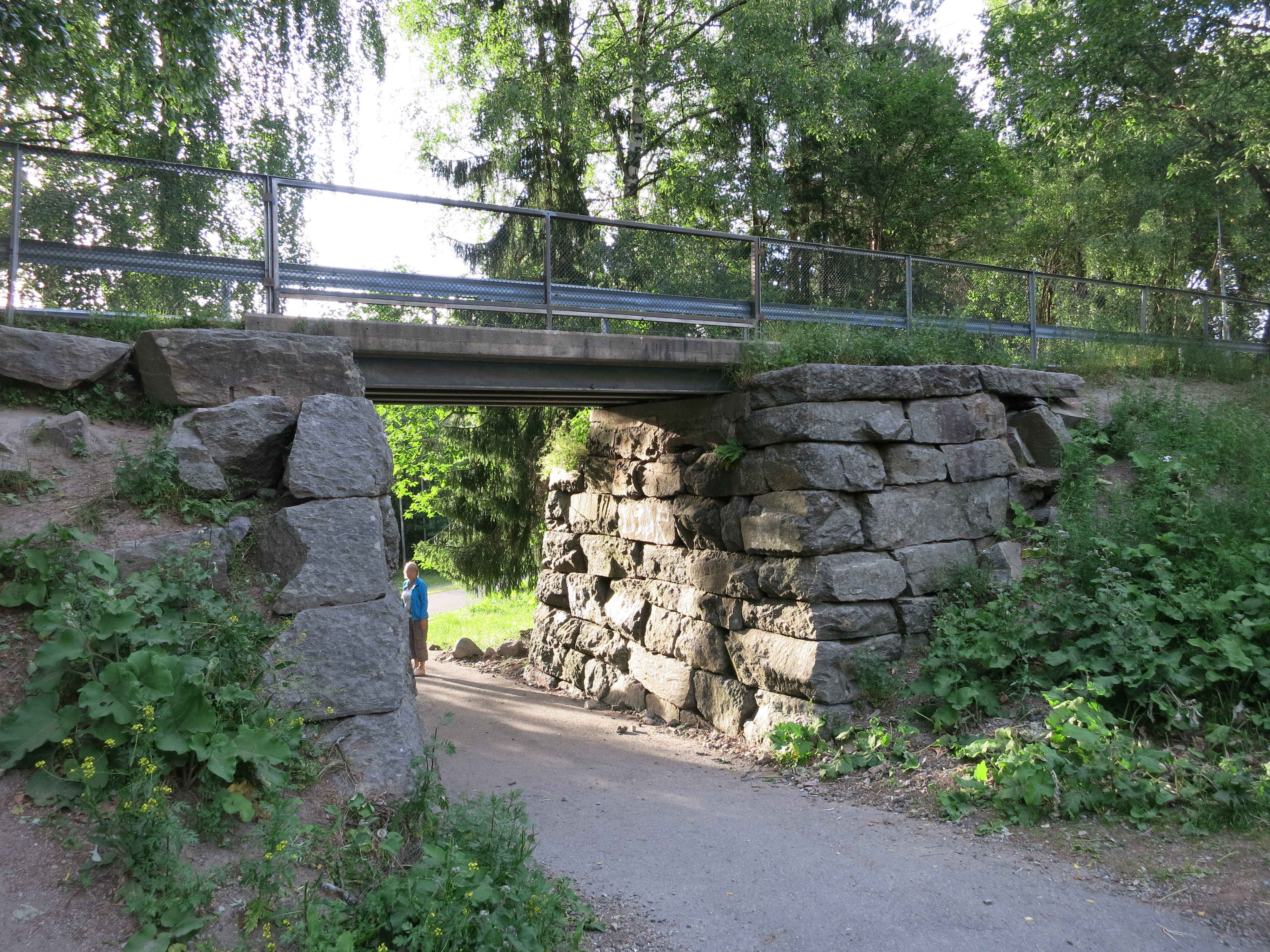 Defunct rail bridge at Hallagerbakken, Oslo